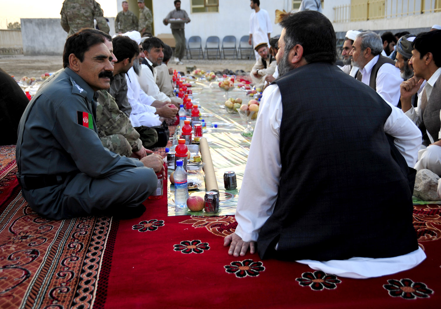 Provincial Chief of Police Sayed Mohammand (left) and Deputy Governor Muhammad Yusin Rasooli talk during a Ramadan iftar dinner hosted by Provincial Reconstruction Team Farah for their provincial government counterparts and other key Afghan officials, Forward Operating Base Farah, Farah province, Afghanistan, Aug. 28. Iftar is held after sunset and is a meal to break the fast Muslims observe from sunrise to sunset during Ramadan. PRT Farah hosted the dinner to foster stronger relations with their government counterparts and connect with one another on a personal level.